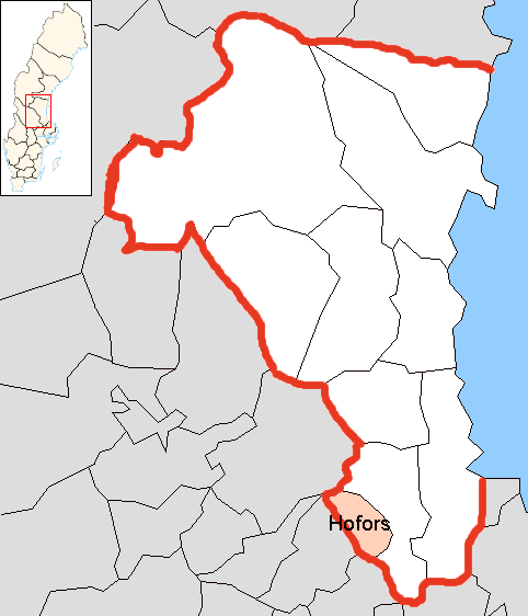 Hofors Municipality in Gävleborg County Designd by me, based on Image:Gävleborg County.png